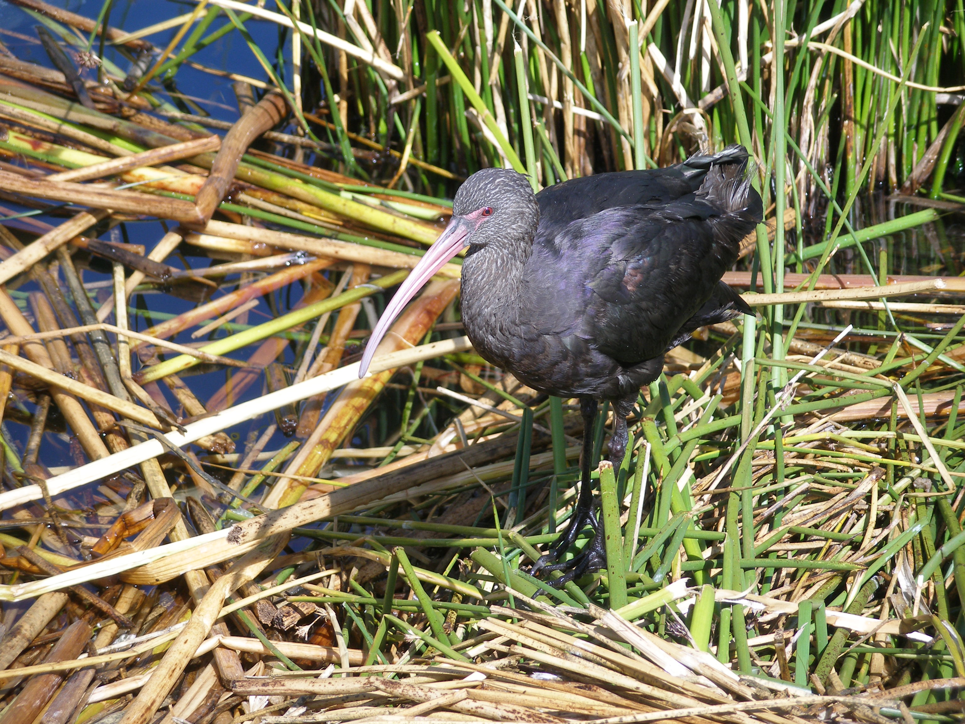 Puna Ibis Plegadis ridgwayi found in Peru and domesticated by the peoples of the Uros islands in Lake Titicaca. Used for meat and eggs.